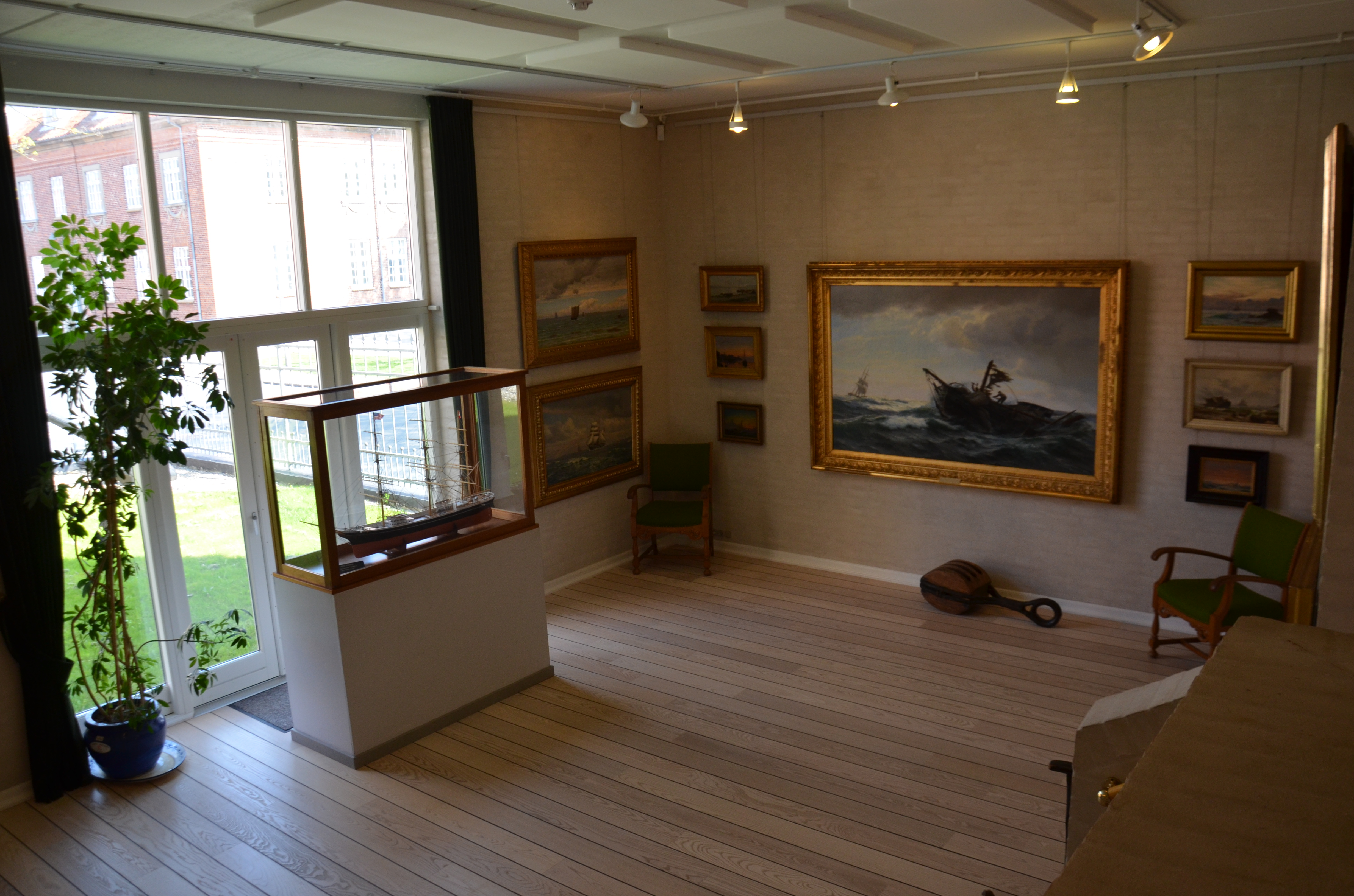 Marstal Söfartsmuseum, Marstal, Denmark. Paintings by Carl Rasmussen.